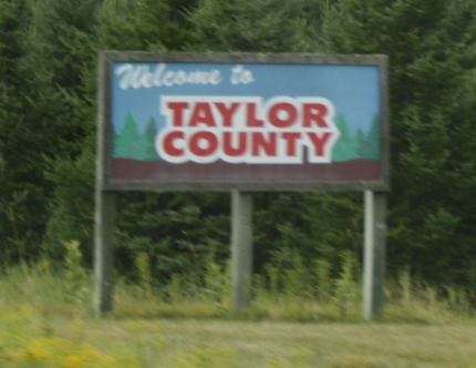 The county sign for Wood County, Wisconsin on Wisconsin Highway 13.